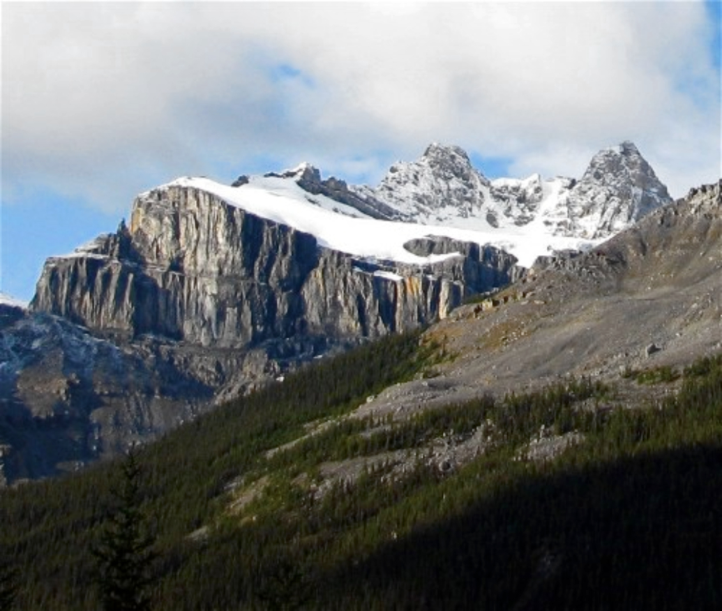 Kaufmann Peaks seen from Icefields Parkway, Alberta